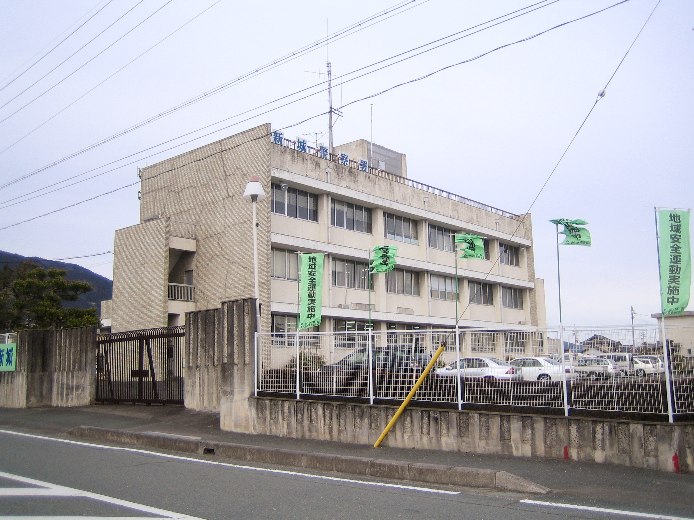 新城警察署。愛知県新城市 Shinshiro Police Station (新城警察署 Shinshiro Keisatsusho), located in Shinshiro, Aichi, Japan